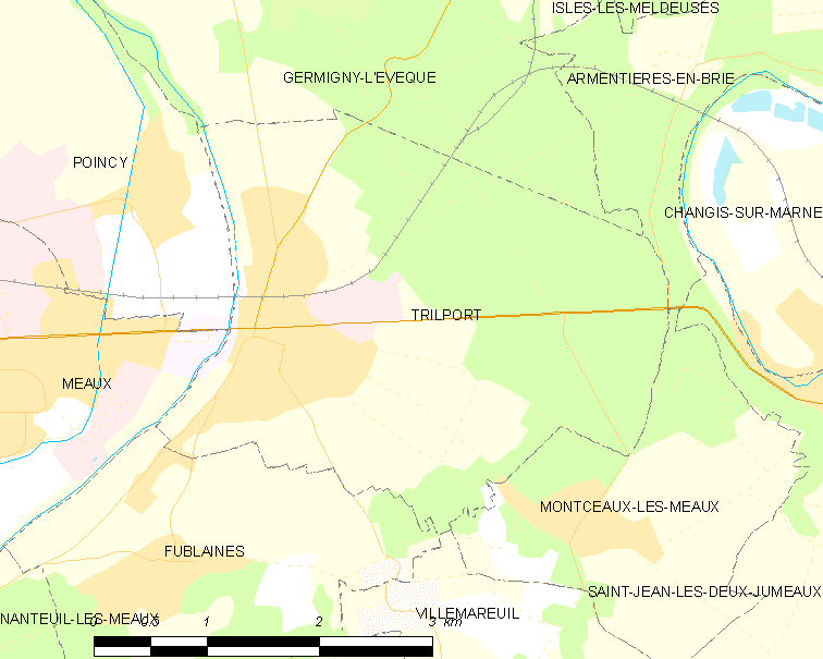 Map of French municipality Trilport